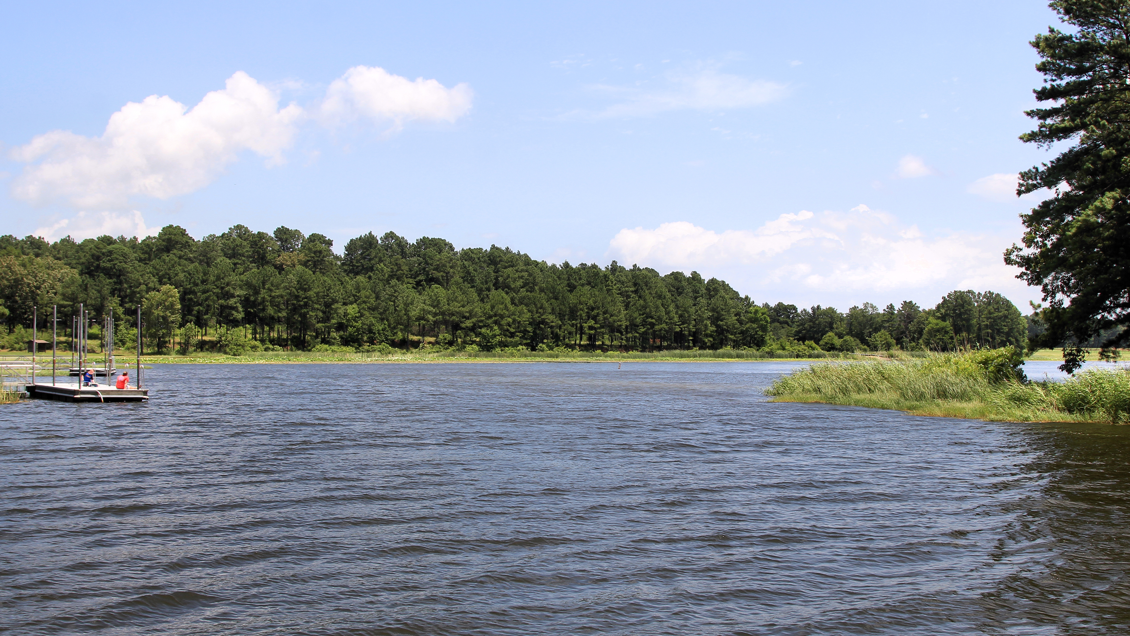 Docks at Martin Creek Lake State Park in Rusk County, Texas, United States.